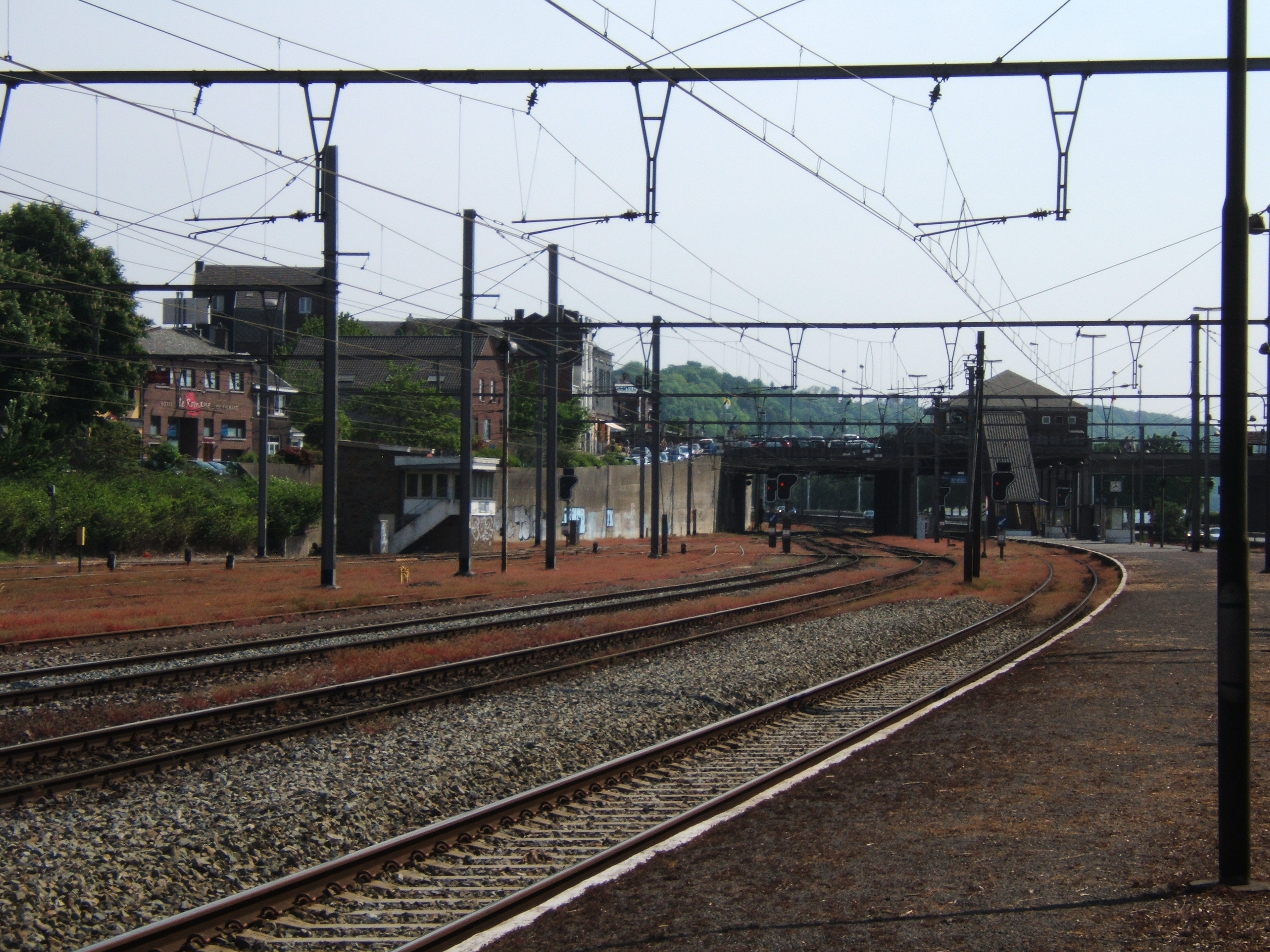 Visé Station